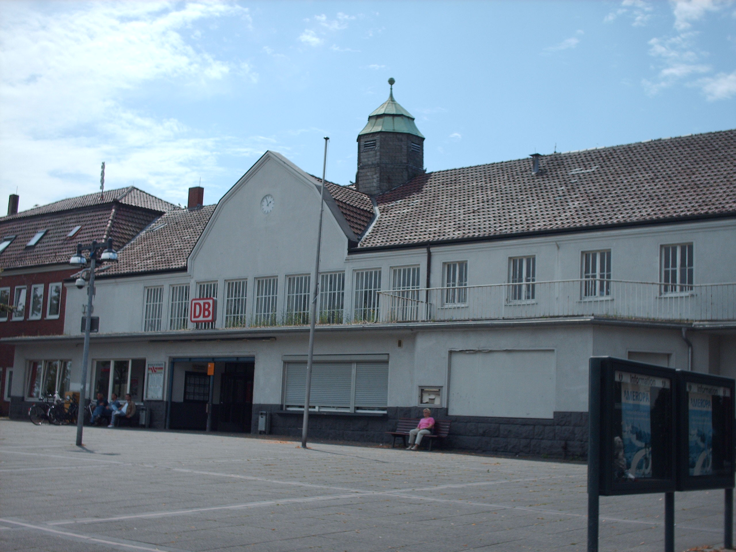 Coesfeld (Westfalen) station, Coesfeld, Germany check usage